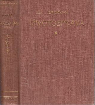 Photo of Životospráva (The Conduct of Life) by Ralph Waldo Emerson